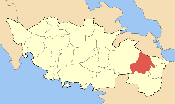 Locator map of Tanagras municipality (Δήμος Τανάγρας) at Voiotias perfecture, Greece.